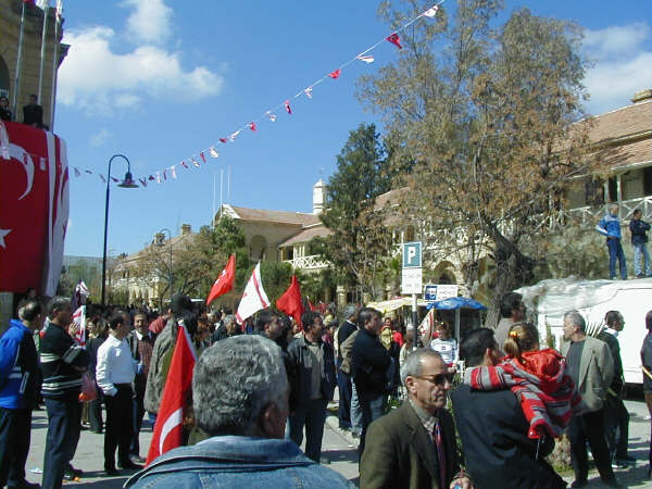 Turkish Cypriots celebrating Victory Day (Turkish: Zafer Bayramı) on August 30 in the streets of Lefkoşa.